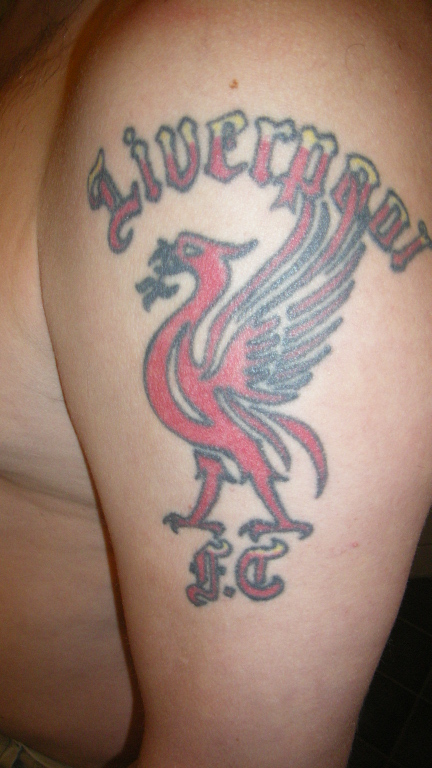 Picture of my Liverpool FC tatoo.